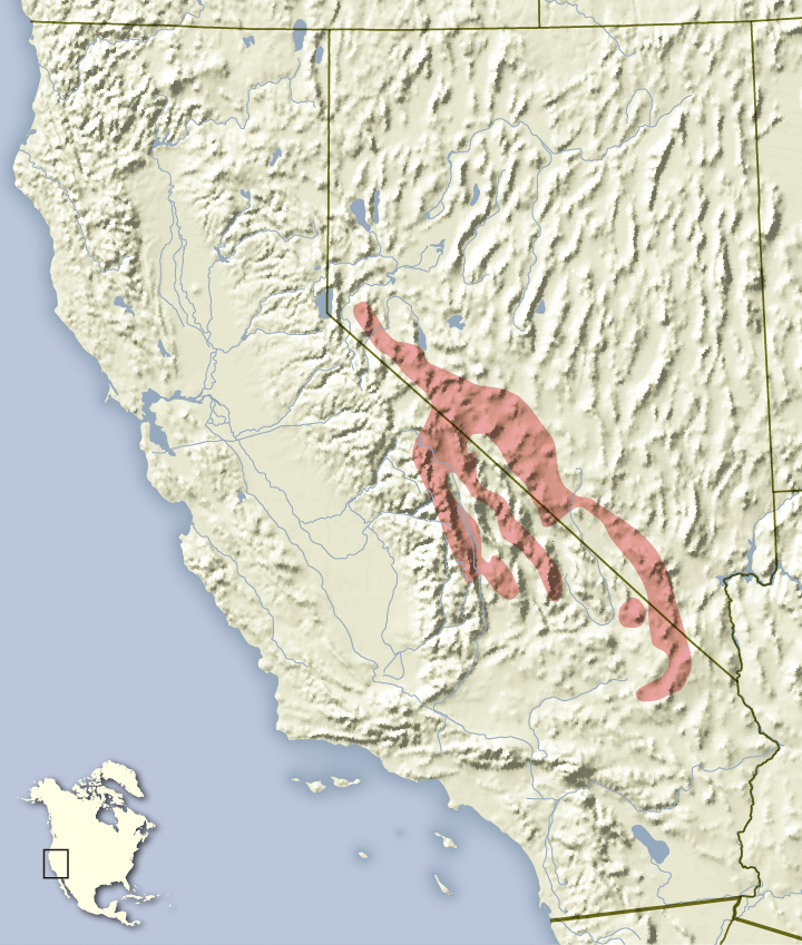 Distribution map of the Panamint chipmunk